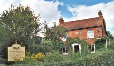 House of Dr. Edward Bach in Sotwell, England (not far from Oxford).